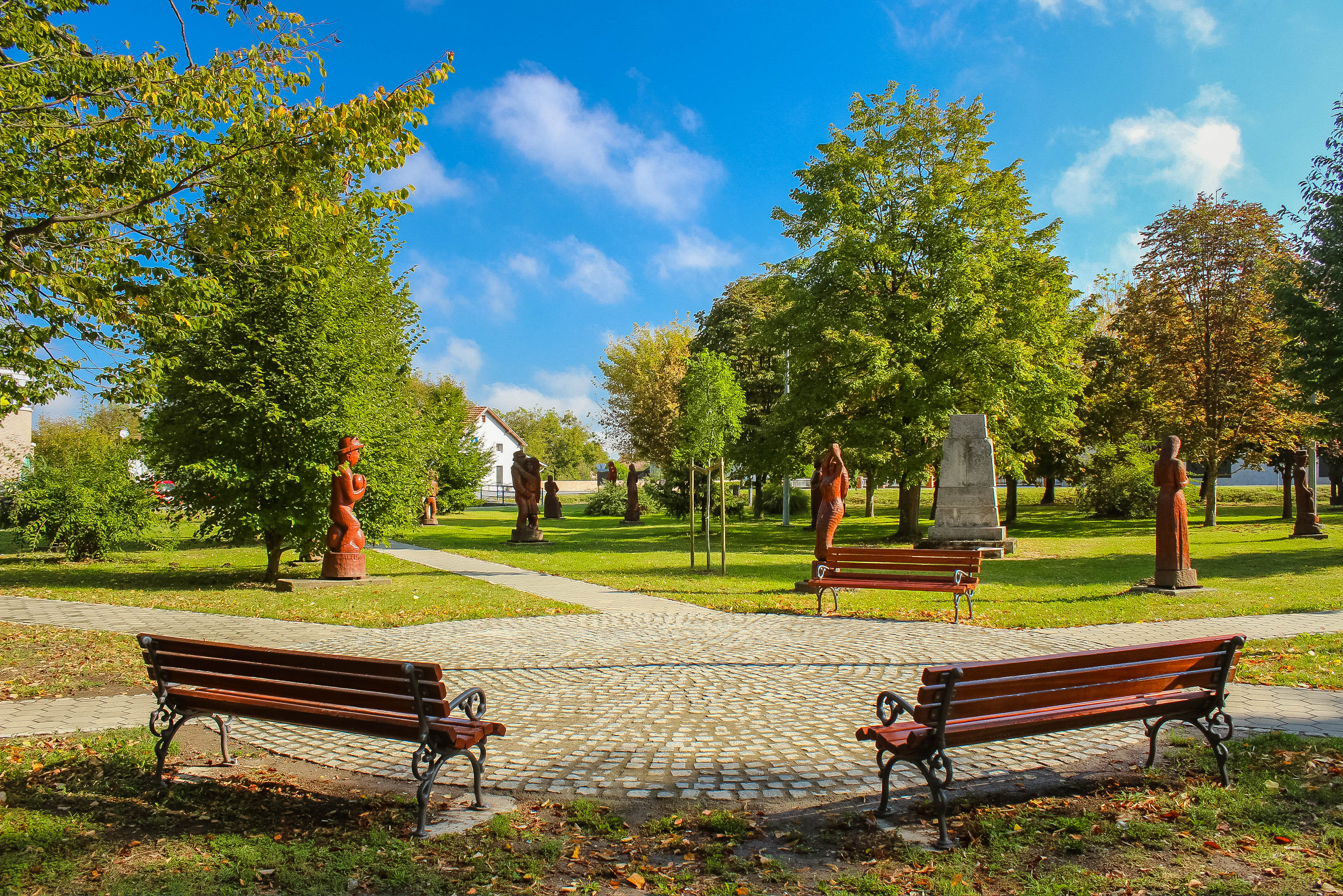 Park in Ernestinovo